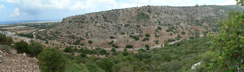 View of the northern slope of Nahal Oren, Mount Carmel, Israel - the location of the prehistoric site of Nahal Oren.